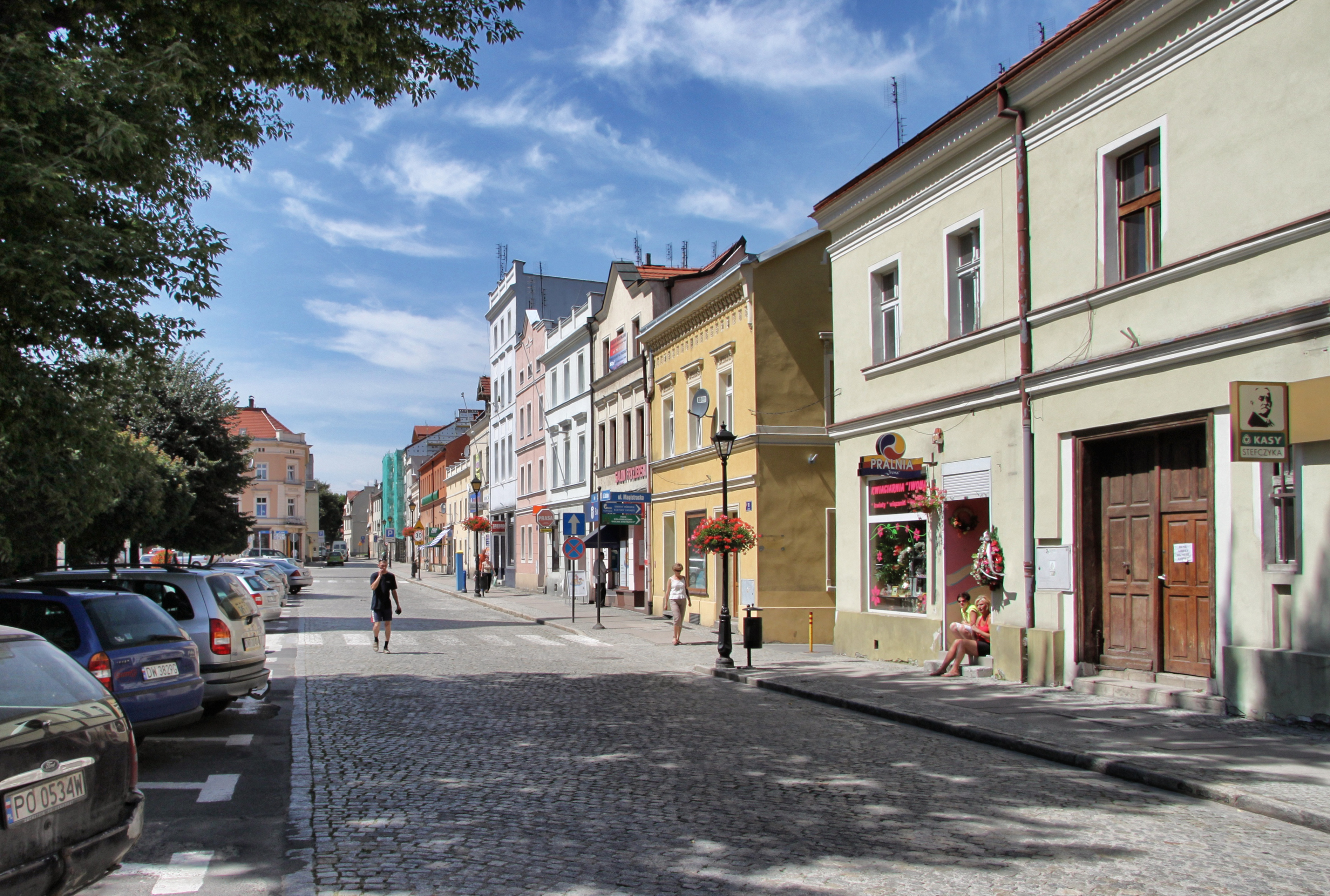 Market Square in Kąty Wrocławskie.